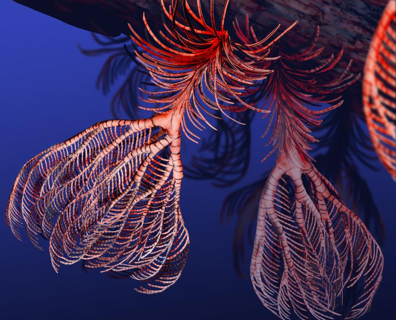 Pentacrinites